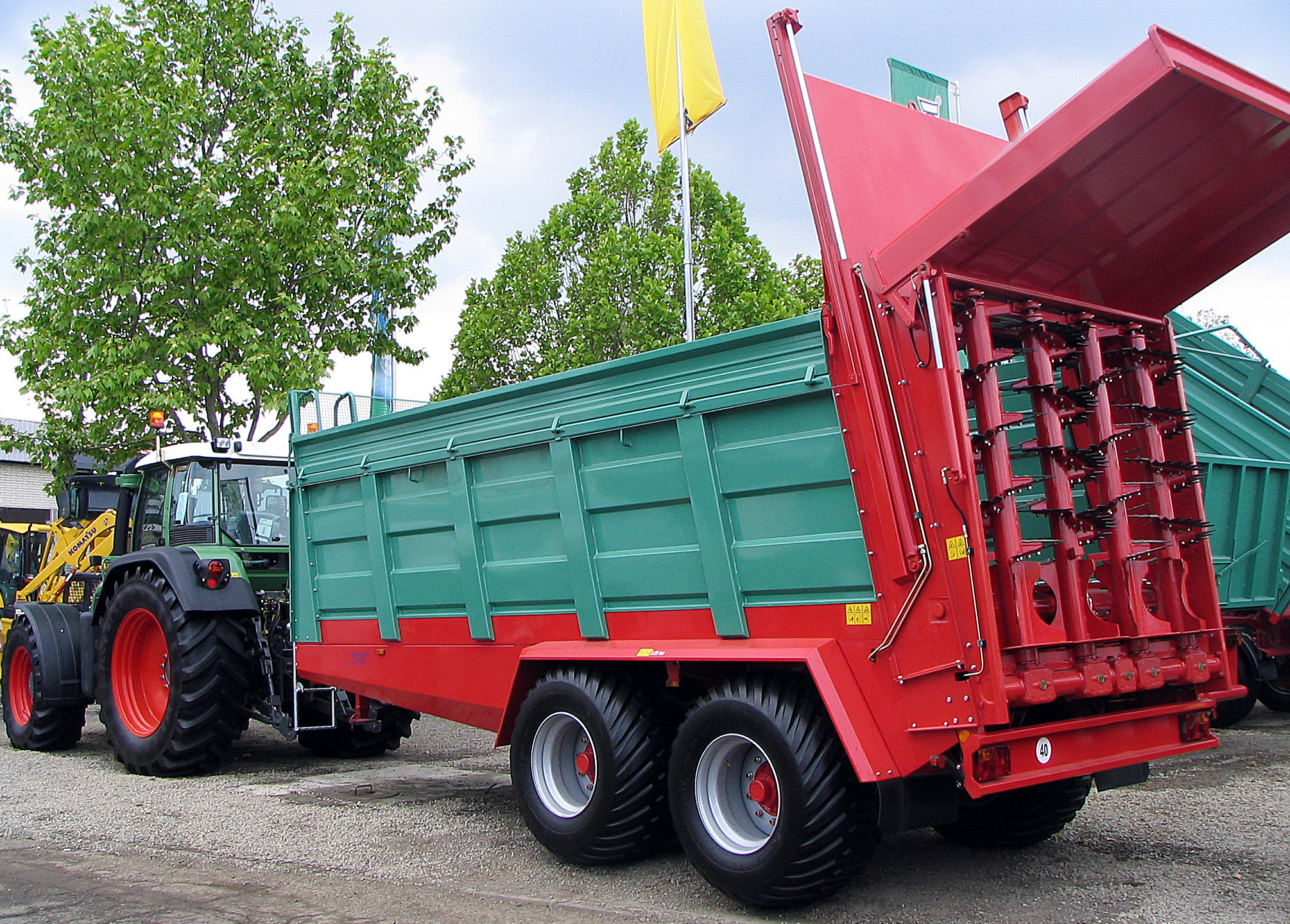 Manure spreader